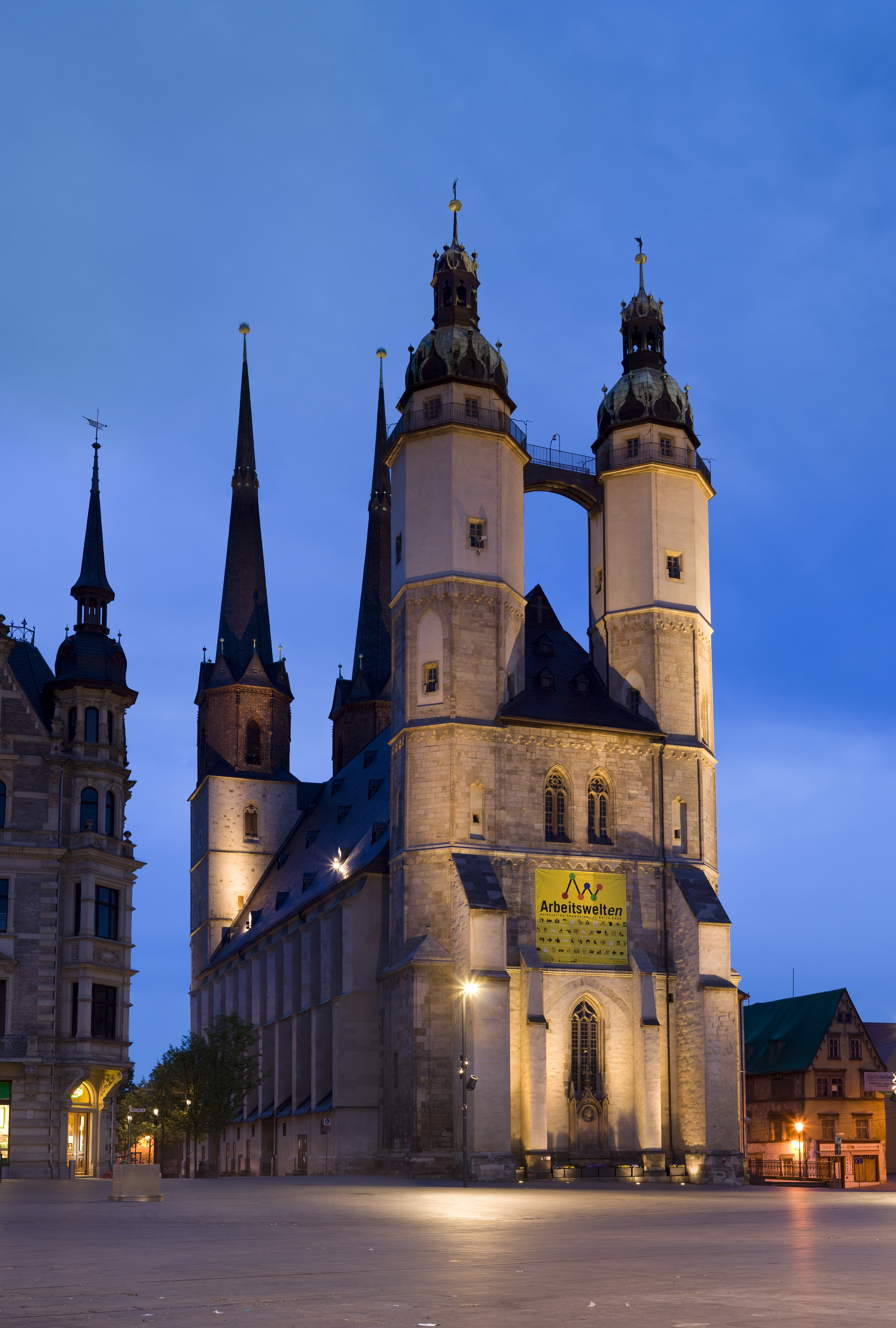 Marienkirche in Halle Saale, seen from East.